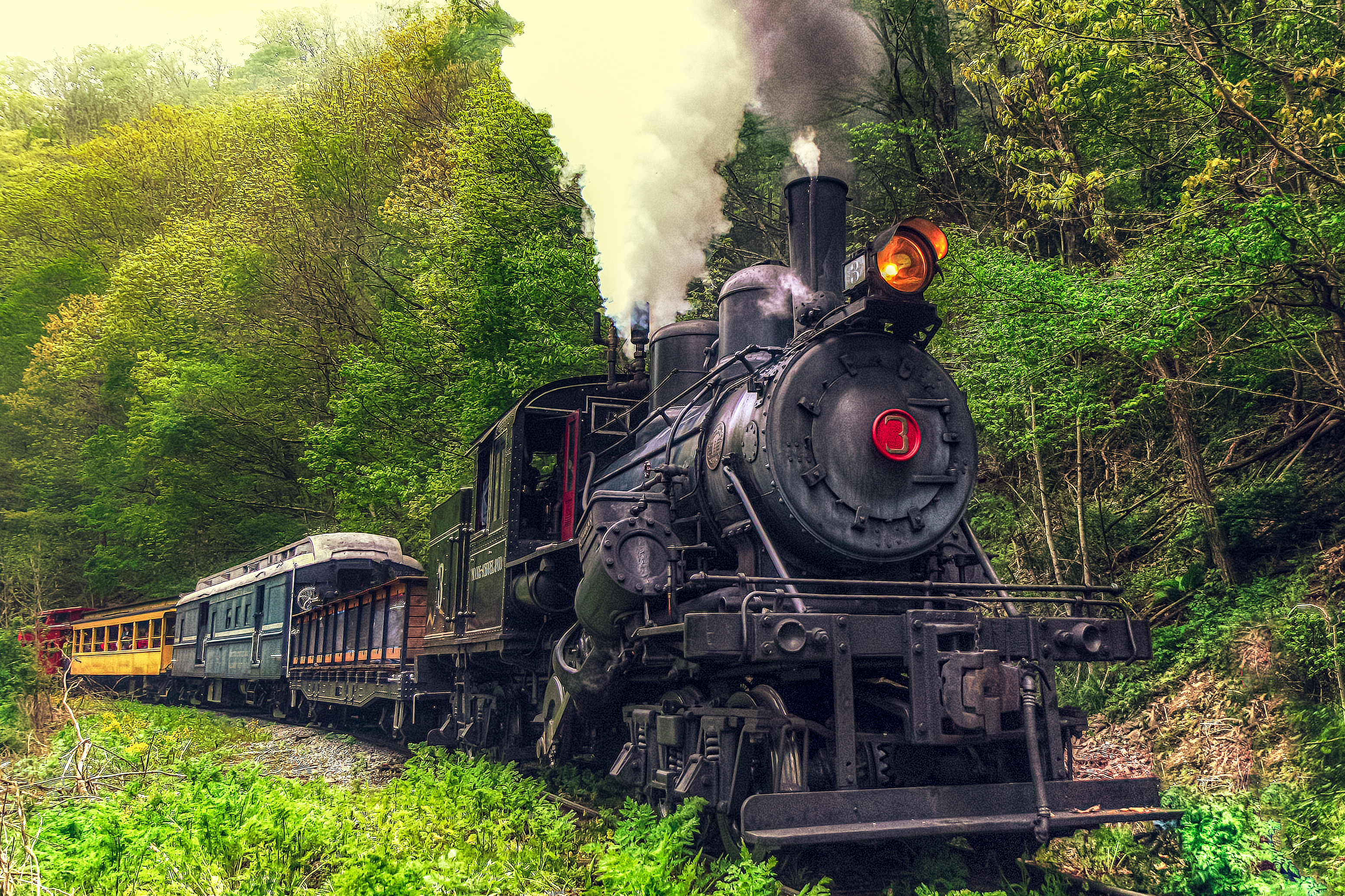 Engine Three at Chestnut Hollow Bend